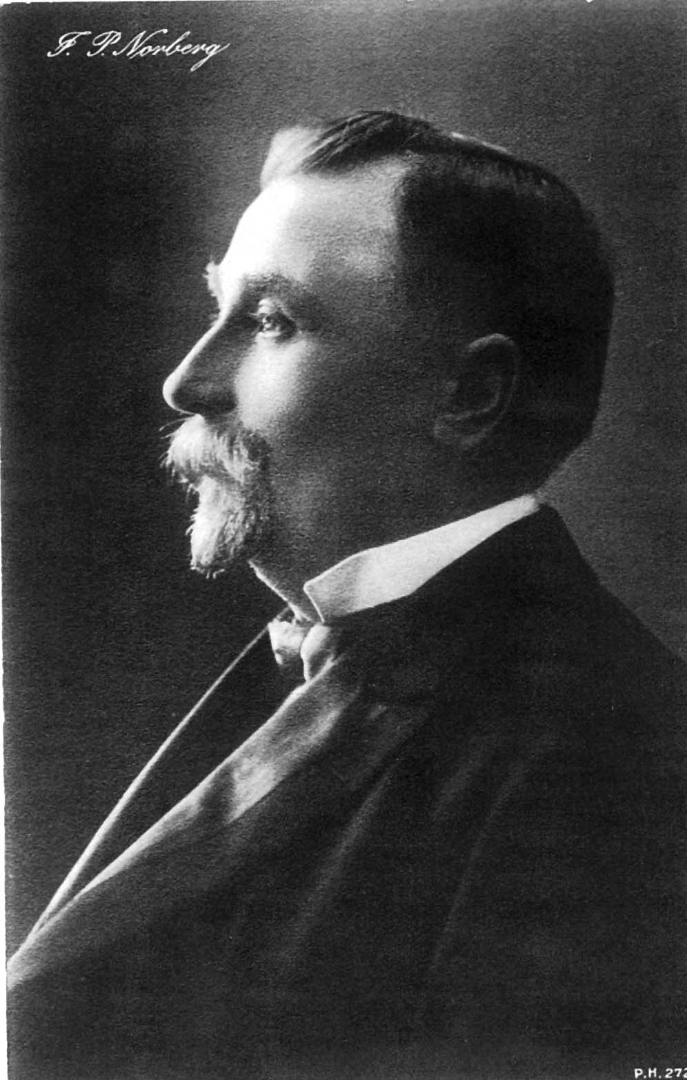 B. 1855. D. 1918